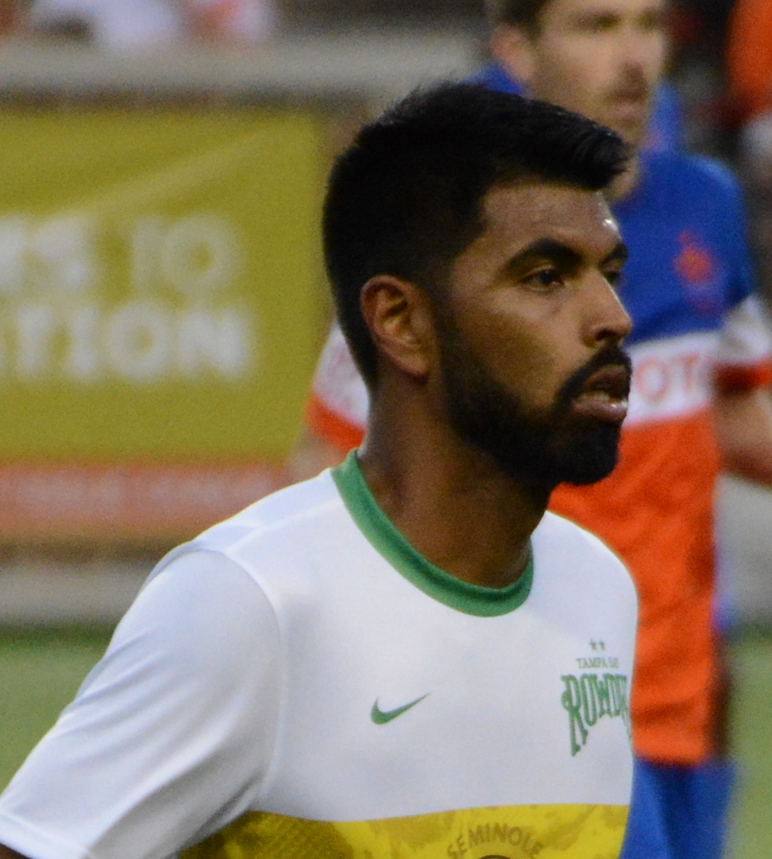 Justin Chavez Taken during a match between FC Cincinnati and Tampa Bay Rowdies at Nippert Stadium in Cincinnati, USA on April 19, 2017.